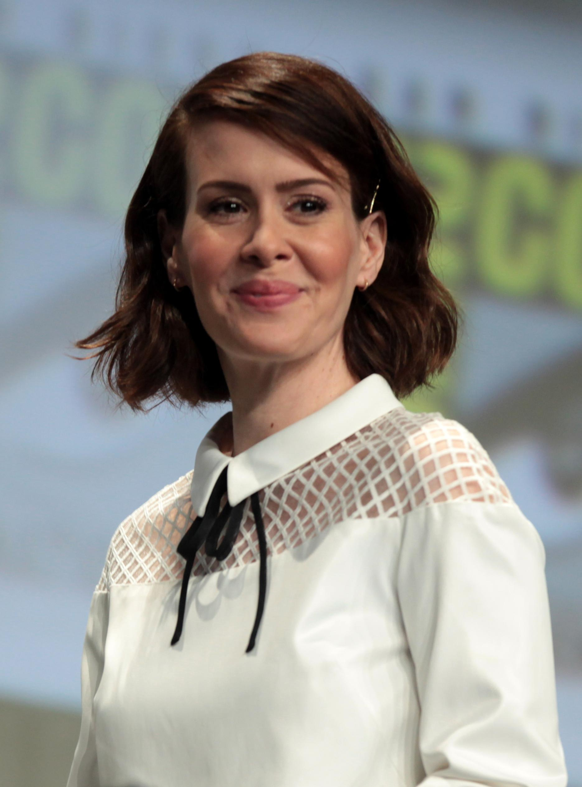 Sarah Paulson at the 2014 San Diego Comic Con International, for "Entertainment Weekly: Women Who Kick Ass", at the San Diego Convention Center in San Diego, California.